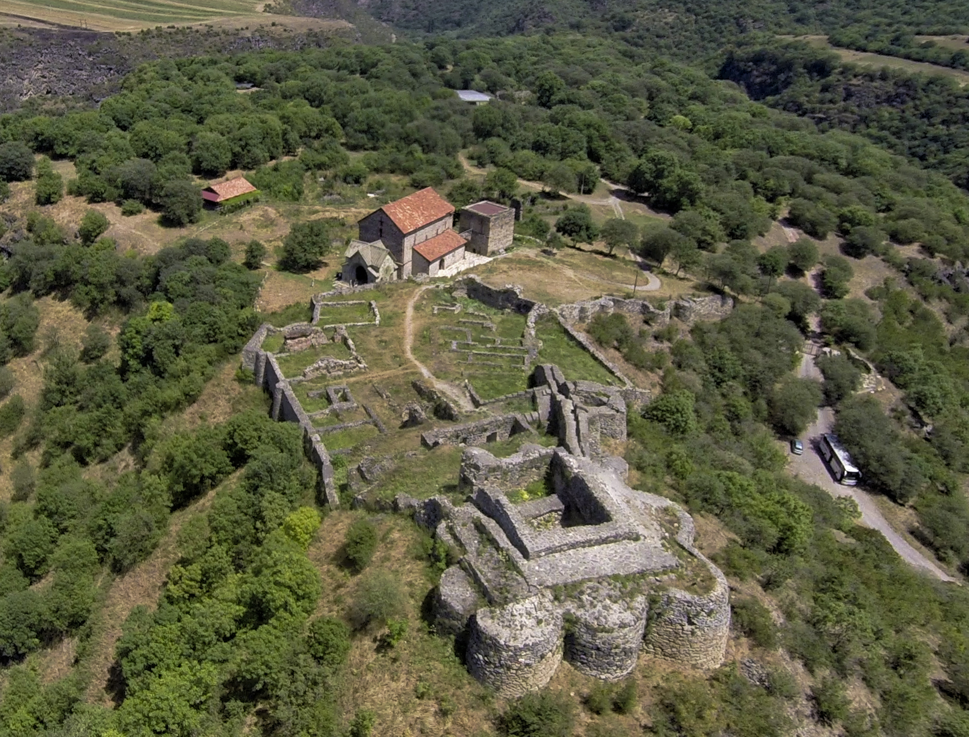 Dmanisi castle ruins with Dmanisi Sioni and archeological site in background